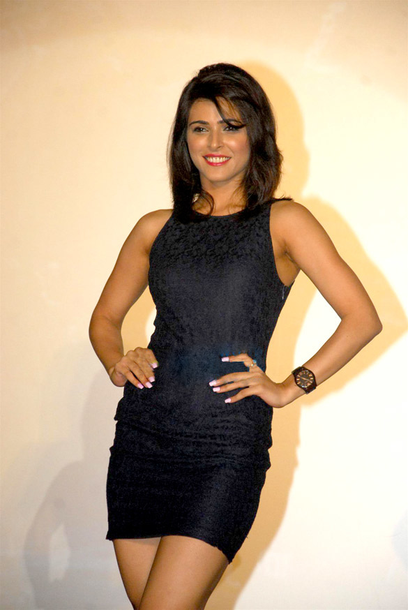 Actress Madhurima Tuli at first look & trailer launch of her film Warning.